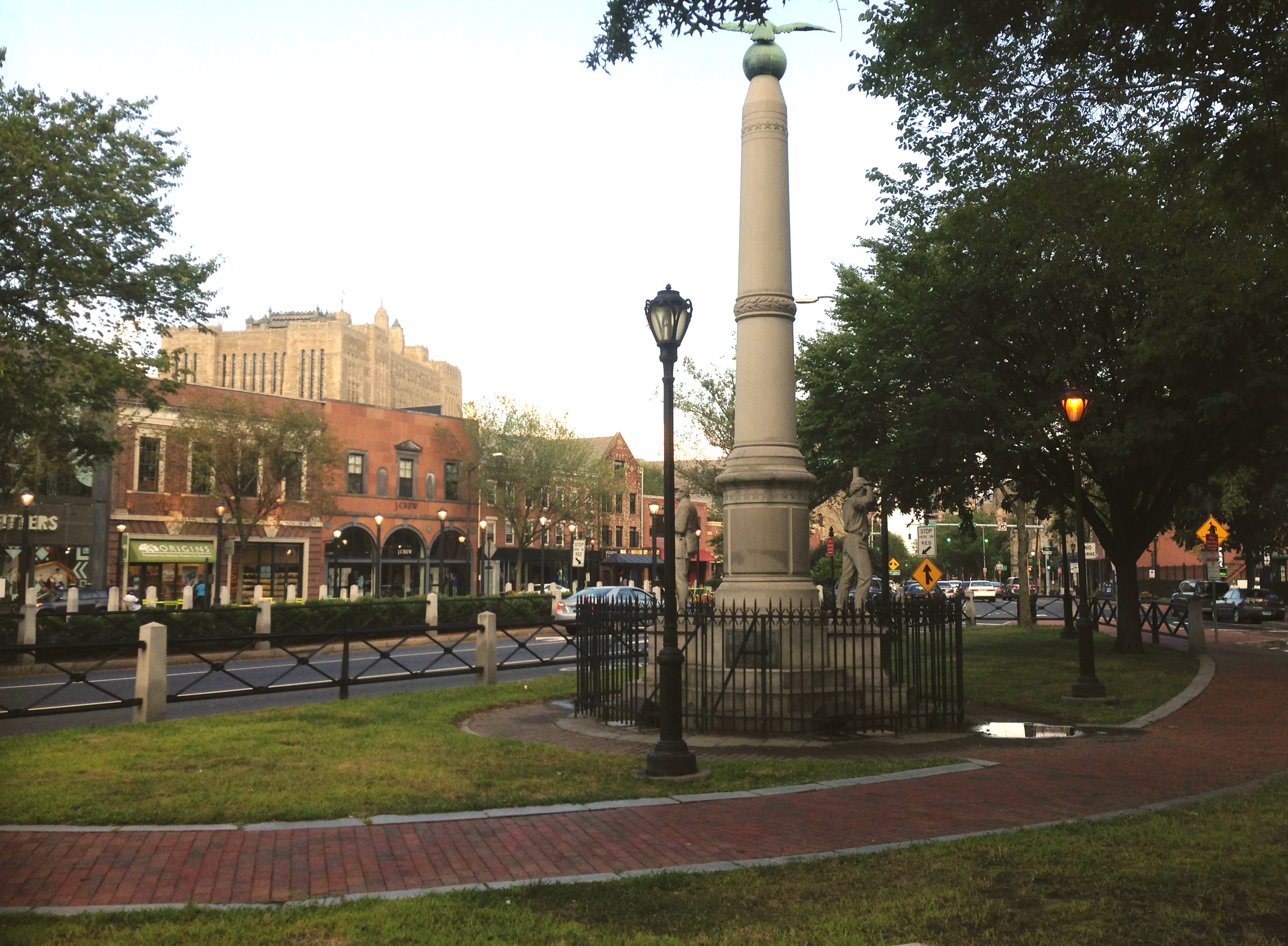 Broadway Triangle, a small park in the middle of the Broadway shopping area in New Haven, Connecticut